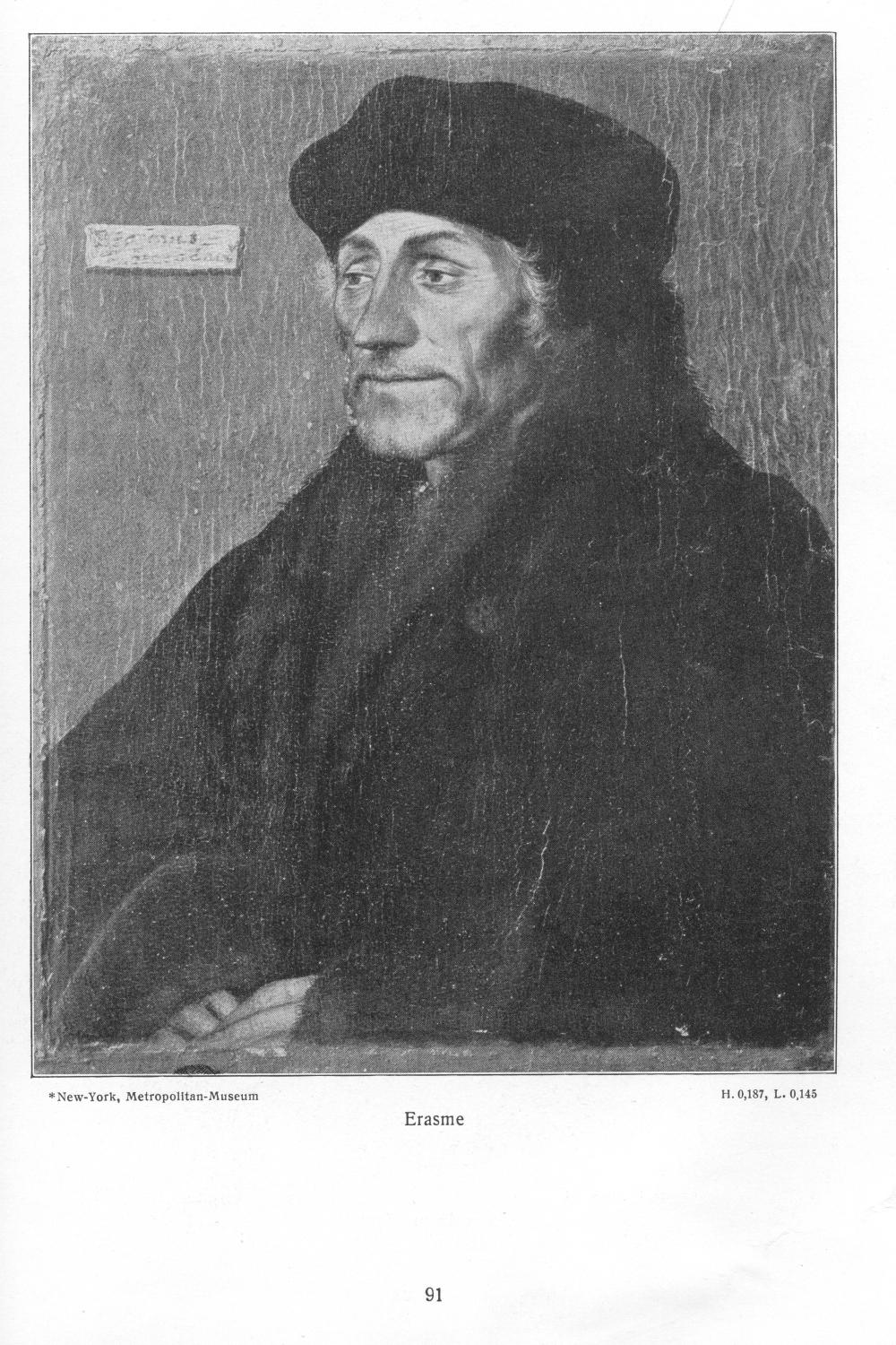 Desiderius Erasmus. By Hans Holbein the younger, undated. From: Hans Holbein le jeune: L'oeuvre du maitre. Paris, Librairie Hachette & Cie., 1912.